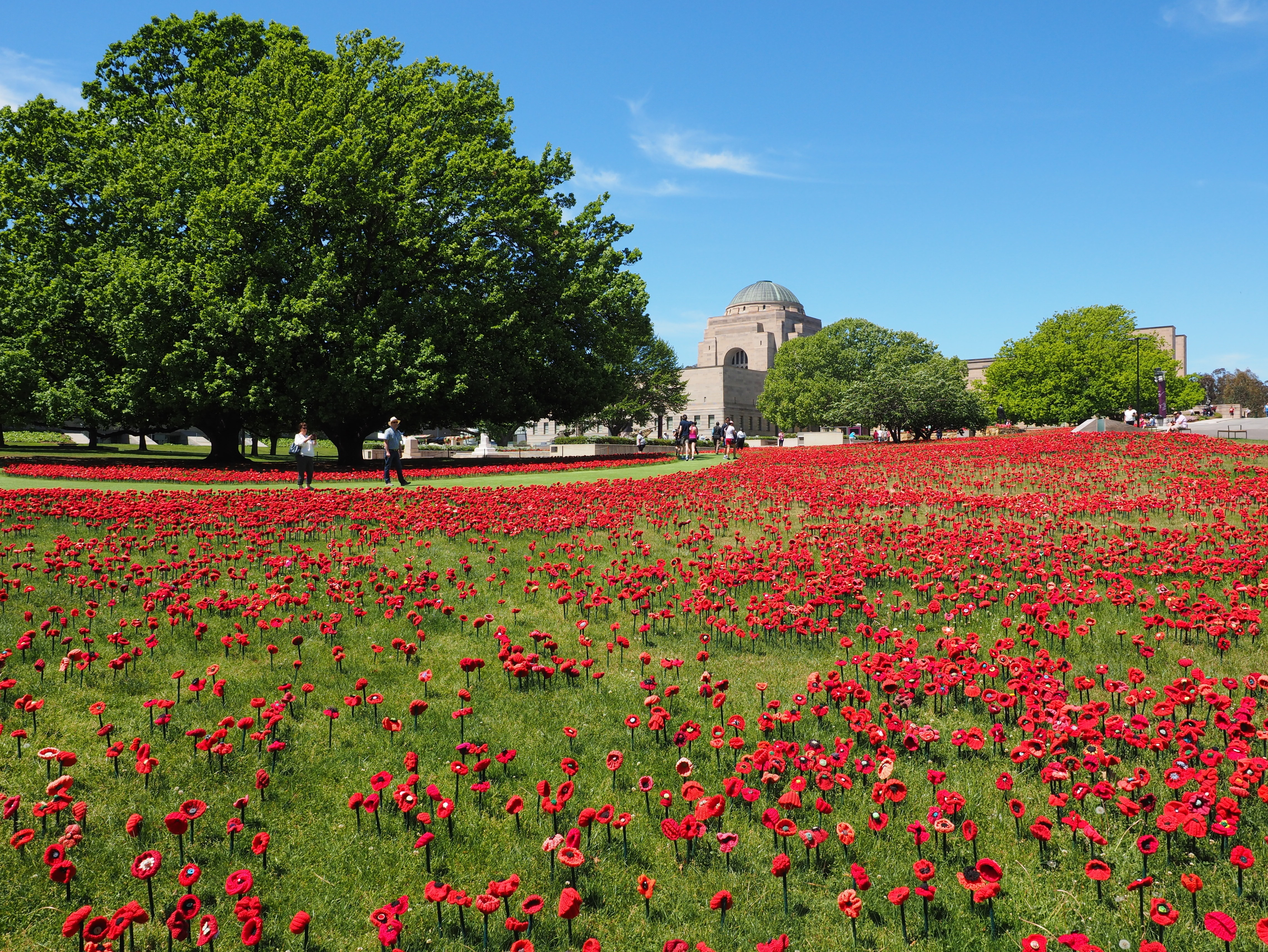 The 62,000 Poppies Display at the Australian War Memorial. The display includes 62,000 hand-woven poppies commemorating the 62,000 Australians killed in the First World War.